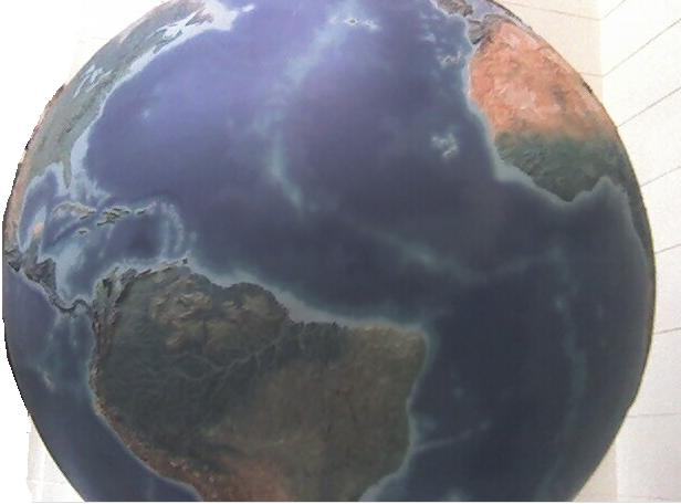 Wegener's theory of Continental Drift, vindicated by Plate tectonics and Seafloor spreading, illustrated by Relief Globe at Field Museum